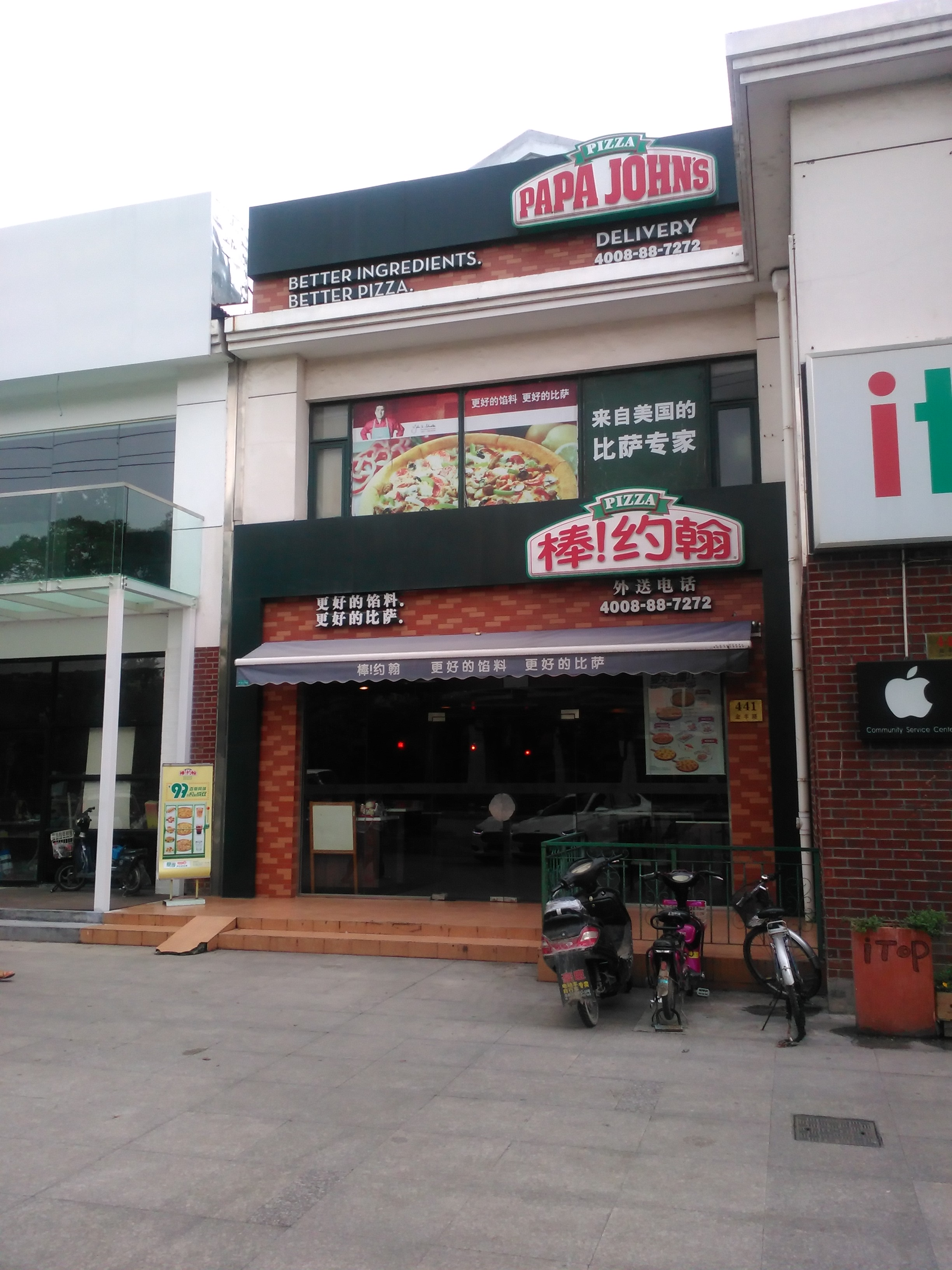 Papa John's Pizza - Shanghai